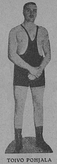 Finnih wrestler Toivo Pohjala (1888-1969) in 1923.